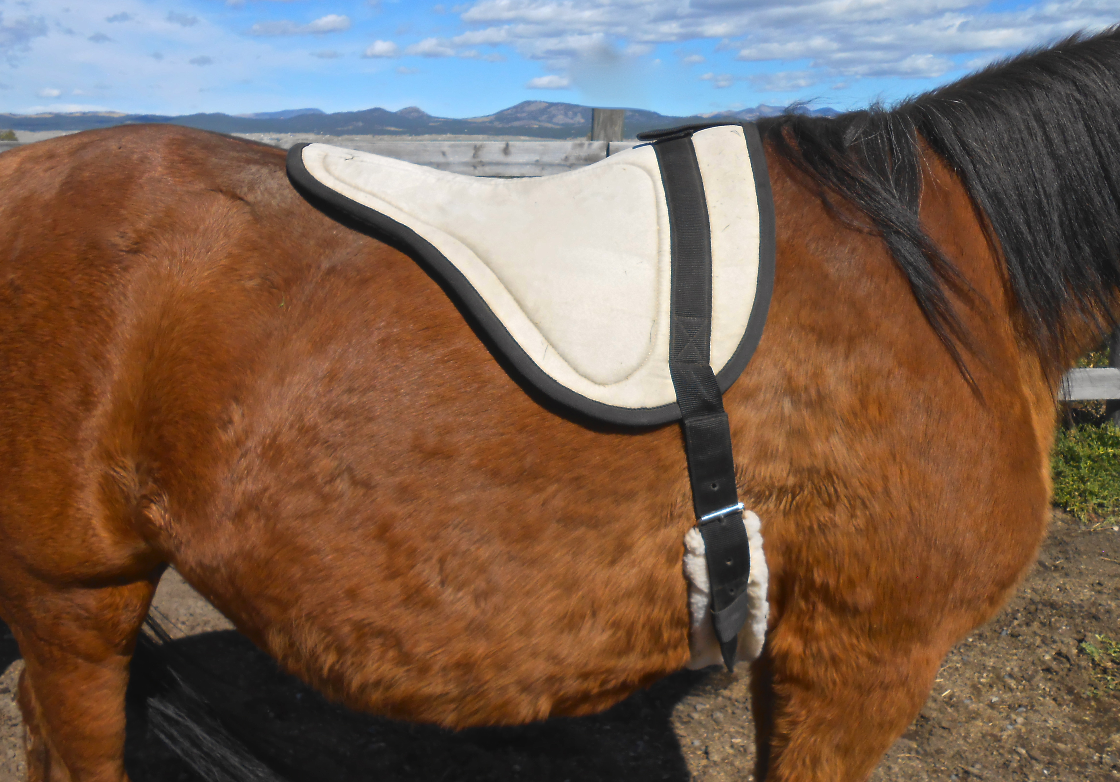 A bareback pad on a horse allows a rider some protection from dirt and gives the horse's back some extra padding for the comfort of horse and rider. A bareback pad does not replace a saddle nor go under a saddle. Care must be taken not to put pressure on the withers by overtightening the girth, as there is not saddle tree to provide support